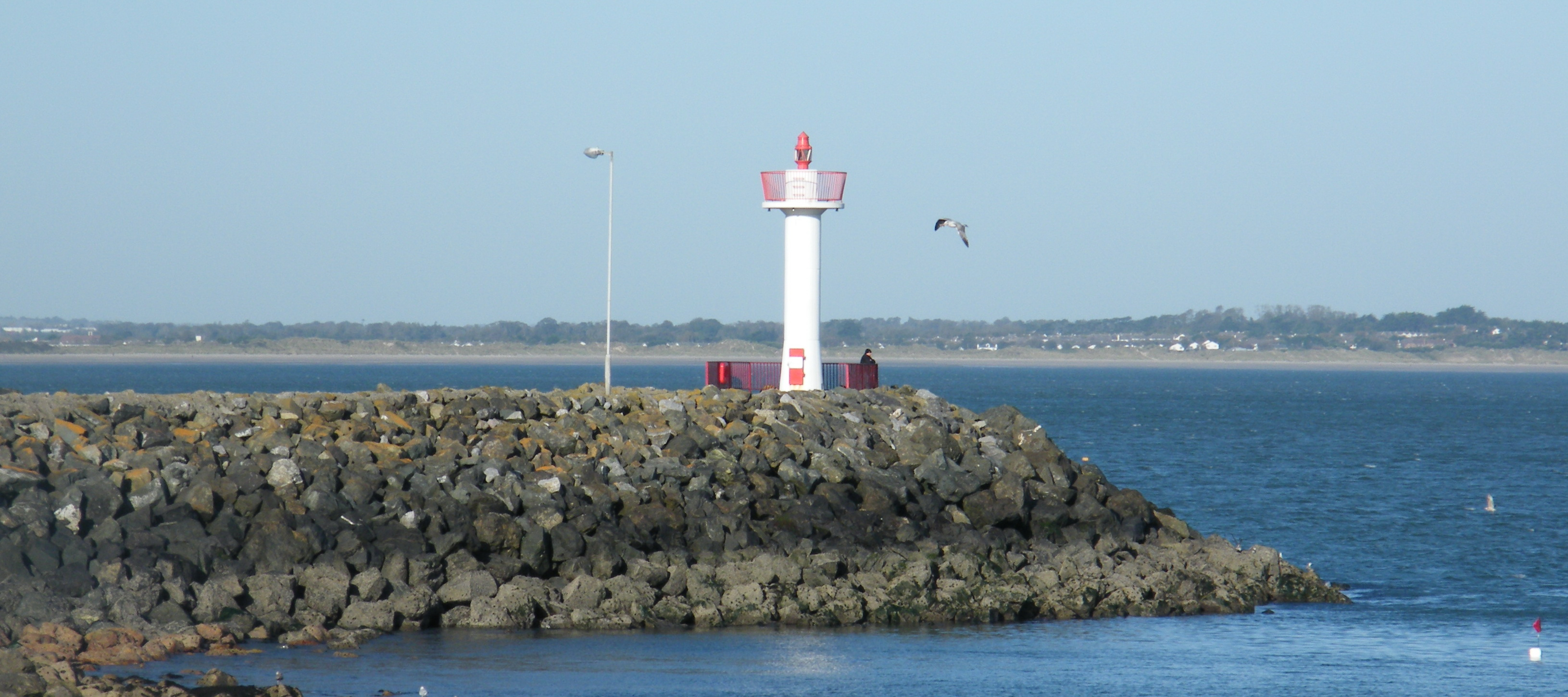 Howth